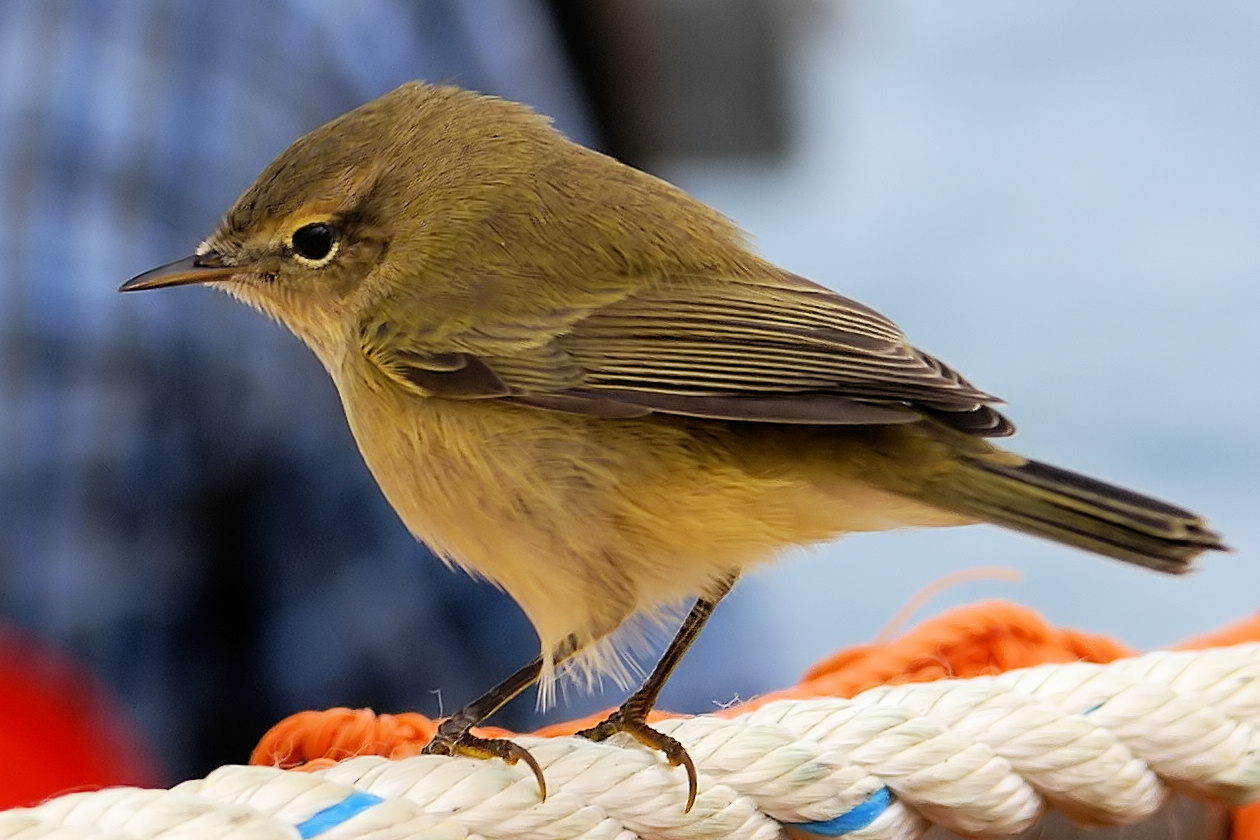 Common Chiffchaff at sea, resting on board during autumn migration. Close to the Buiten Ratel on the Belgian part of the North Sea.